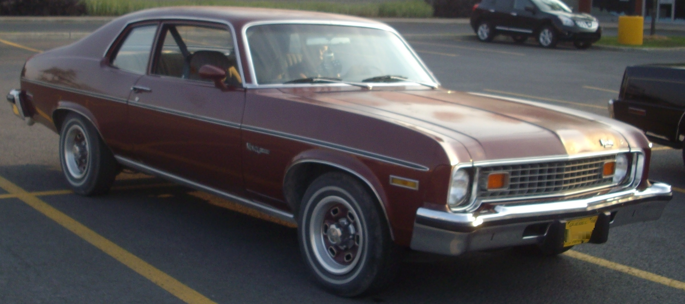 1974 Chevrolet Nova photographed in St. Constant, Quebec, Canada at Auto classique St-Constant.